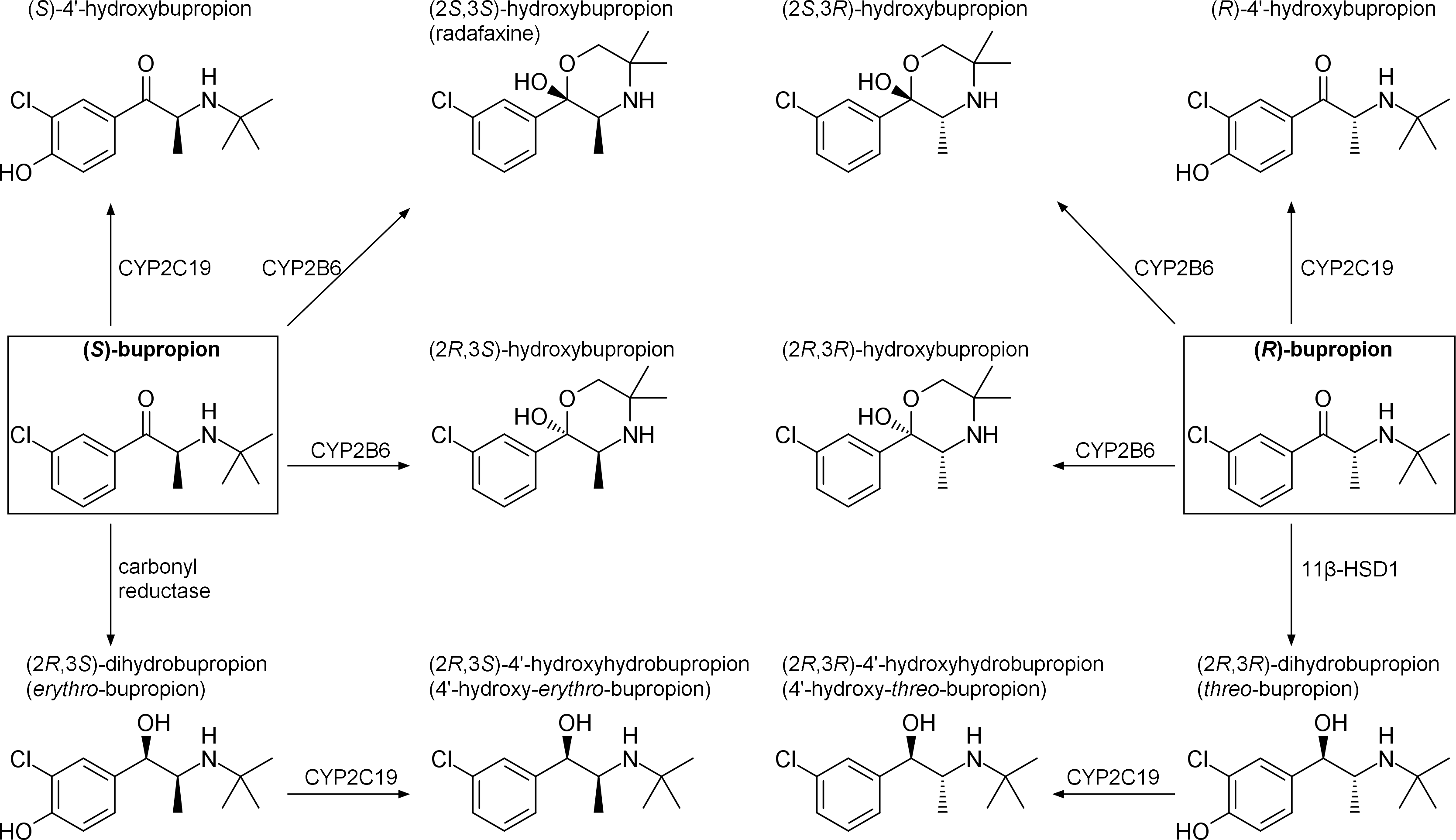 Bupropion metabolism, showing all major metabolites and enzymes responsible for production.